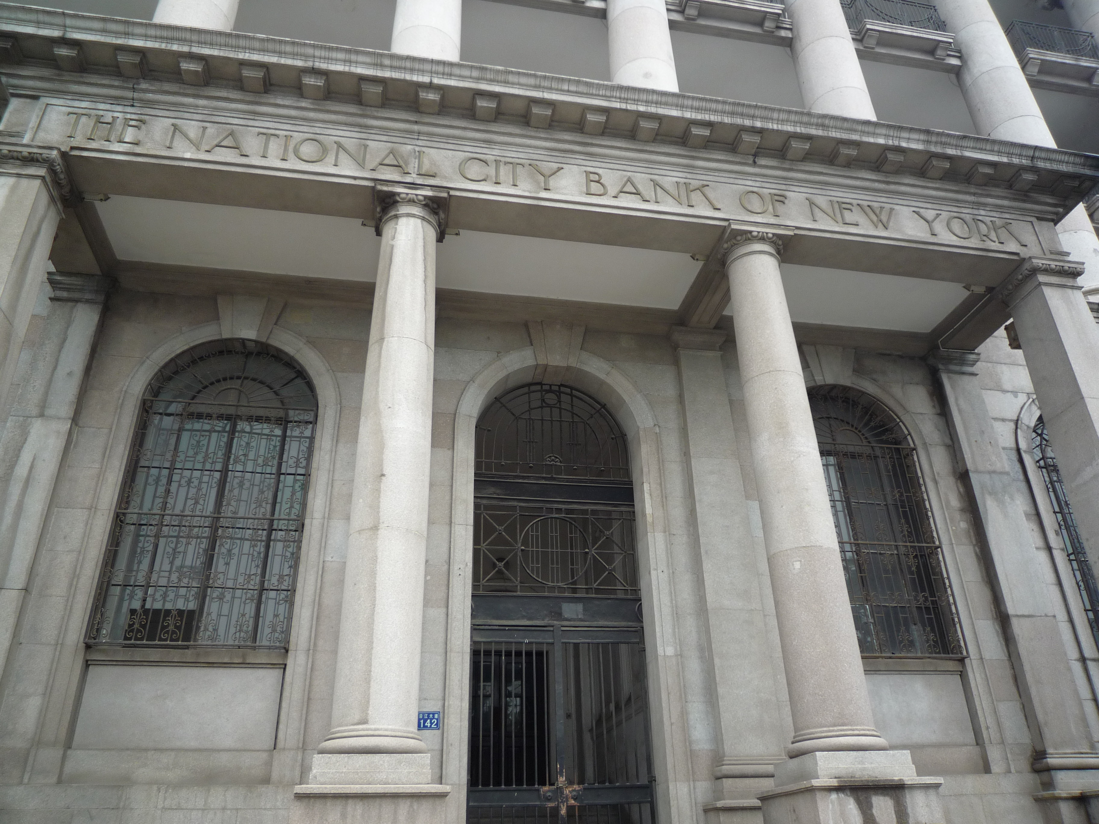 The National City Bank of New York heritage located in the Bund of Wuhan, China. The bank is now known as Citibank.